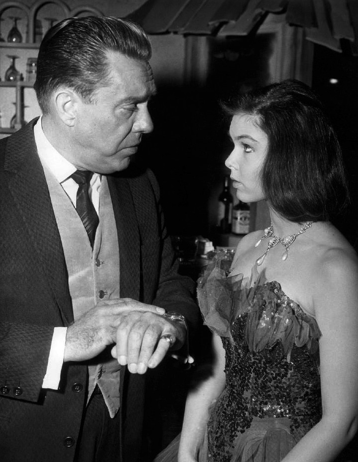 Photo of Edmond O'Brien as Sam Benedict and guest star Yvonne Craig from the television program Sam Benedict.